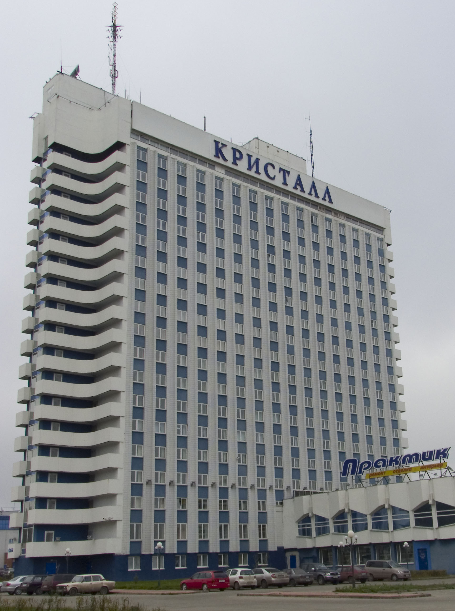 The 'Crystal' Hotel in Kemerovo.